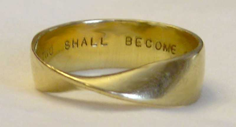 A Möbius strip employed as a gold wedding band, inscribed with a scripture quote [Gen 2:24, quoted later in Eph.5:31].Visible: "Two shall become (one)"